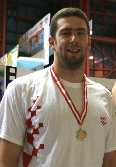 Swimmer Saša Imprić at the 35th Ströck-Austrian Qualifying 2008 at the Wiener Stadthalle.